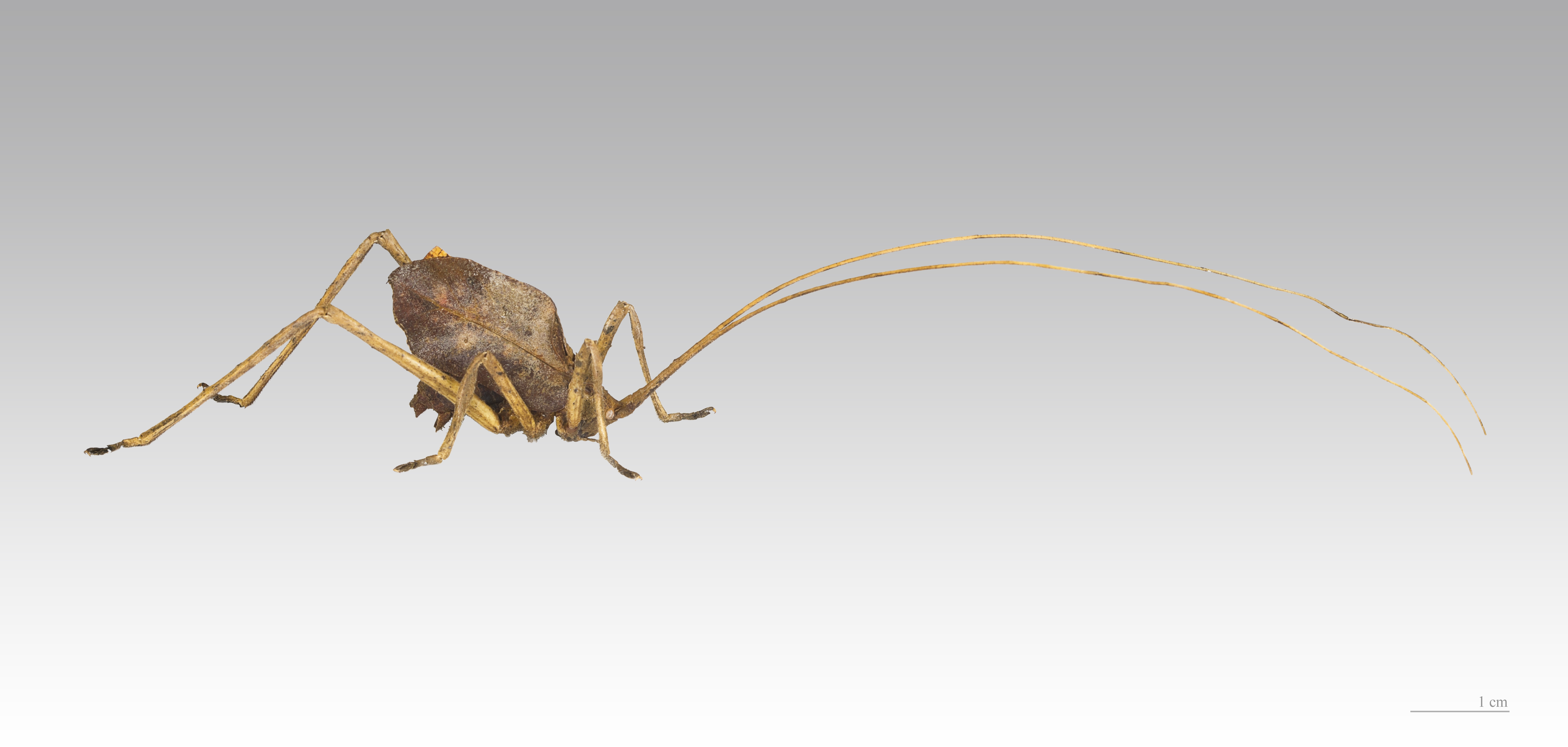 Brazilian Bush Cricket Locality : Jaraguá do Sul, state of Santa Catarina. Brazil.